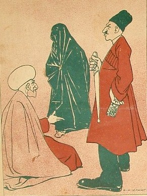 Criticism about the Azeri society tradition from domestic violence to the social and political participation of women in community.